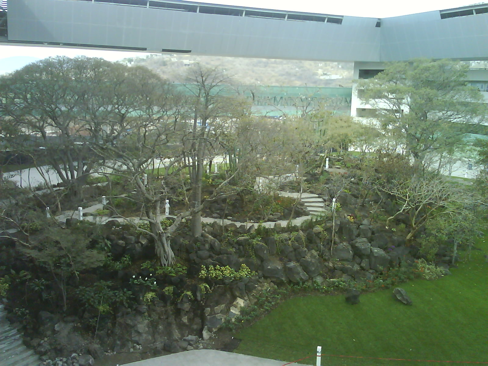 A mini-forest at the Cuernavaca Campus of the Monterrey Institute of Technology and Higher Education.